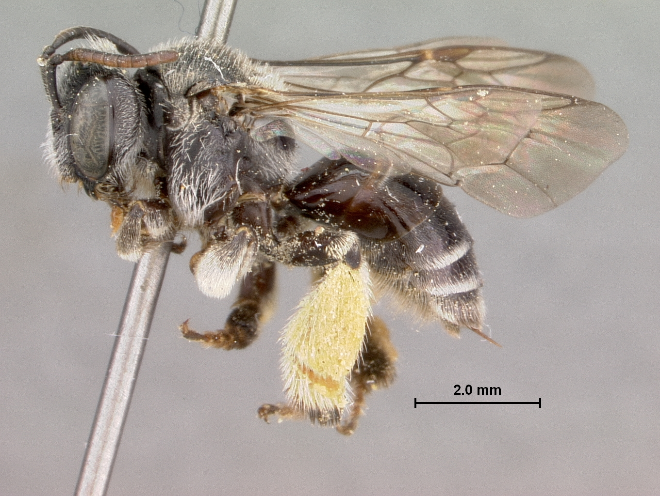 Macropis sp. (Melittidae)